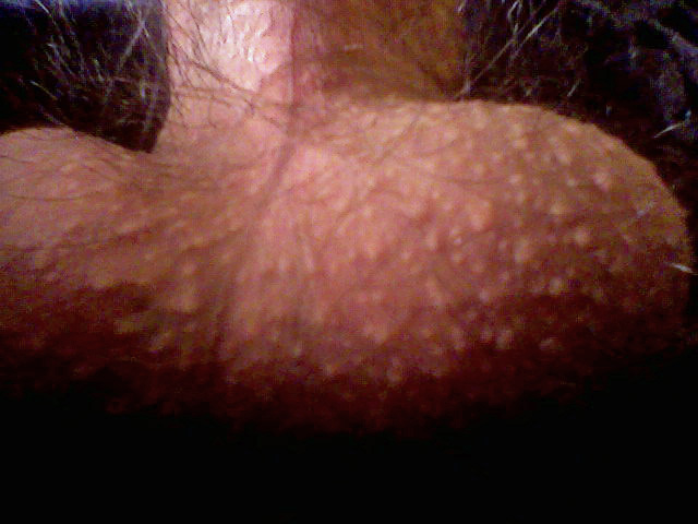 Fordyce spots on scrotum